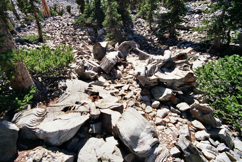 Photo by James R Bouldin